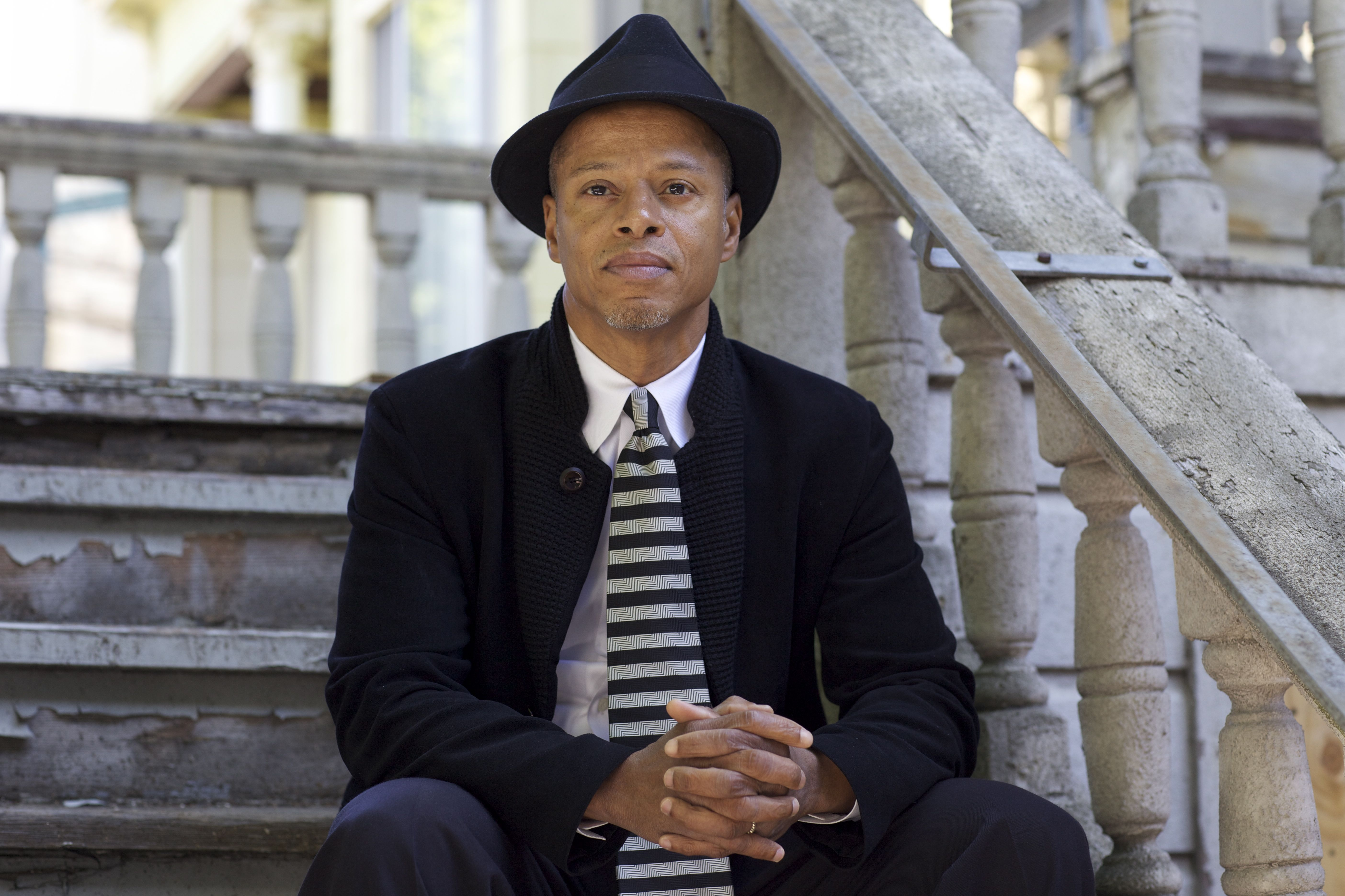 Kerrie Holley is an IBM Chief Technology Officer, IBM Fellow and IBM Distinguished Engineer